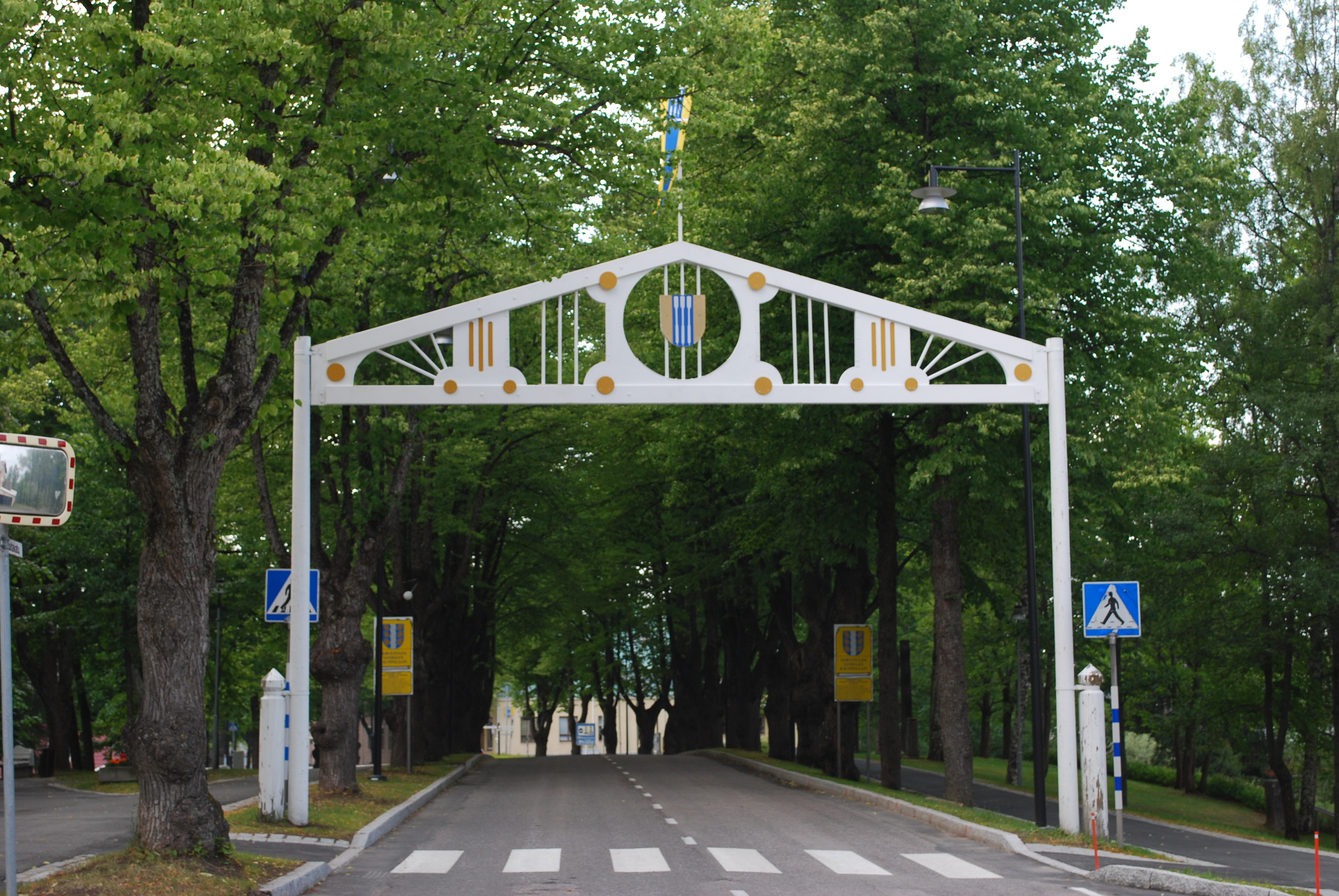 Gate to the old market town of Ikaalinen